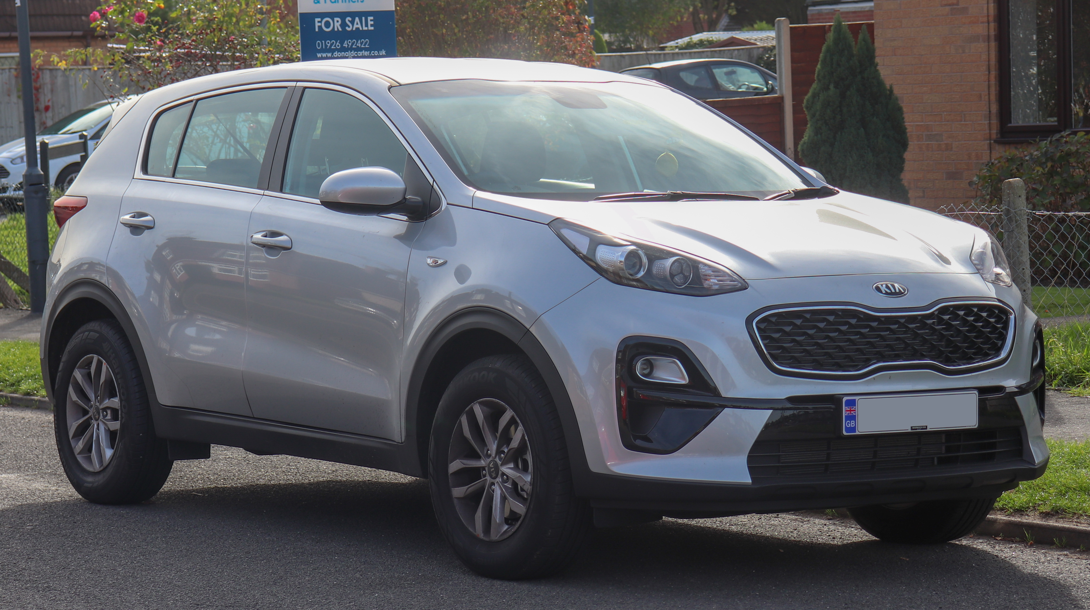 2018 Kia Sportage facelift 1.6 Taken in Warwick